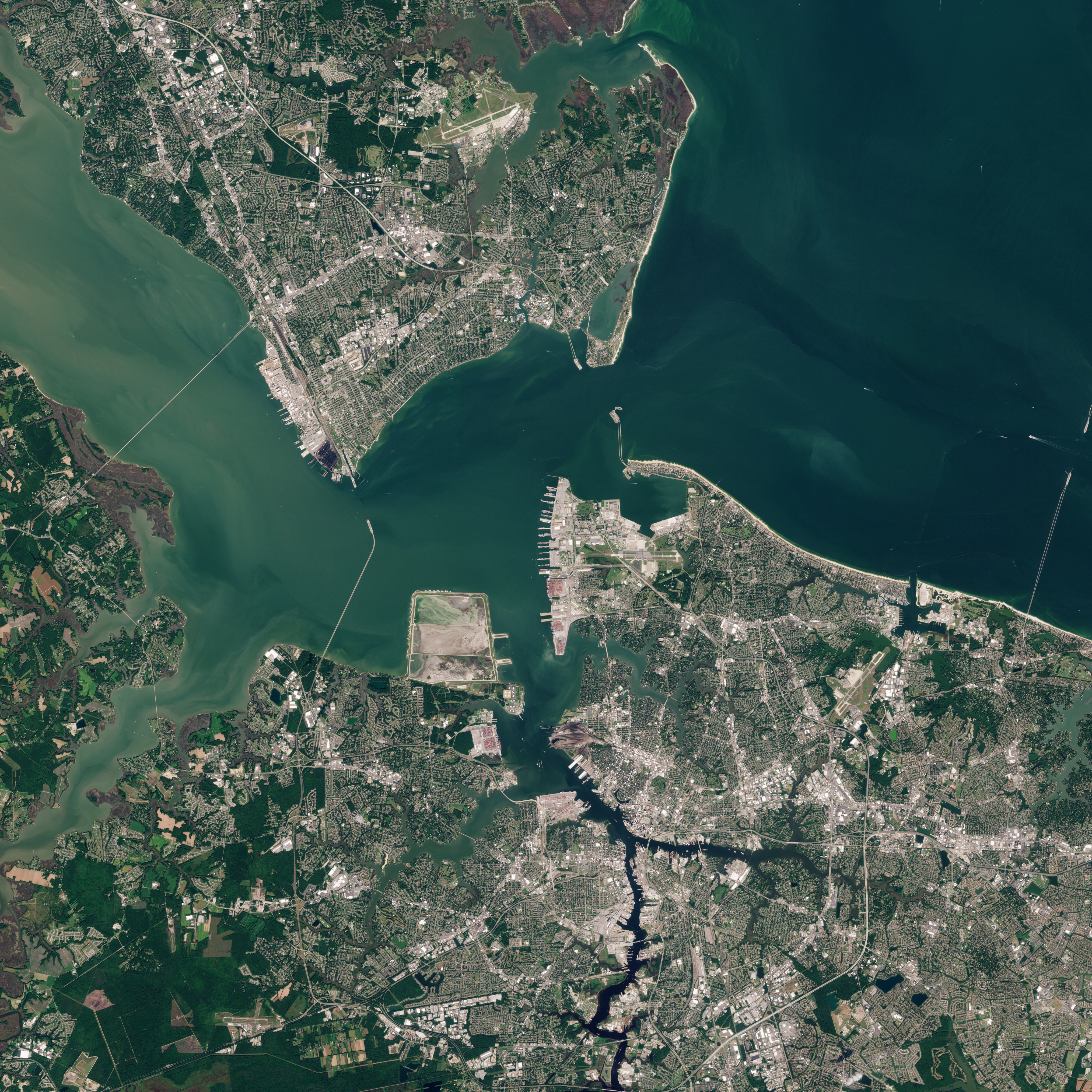 Date: 2018-10-03 Sensor: MSI on Sentinel-2B Resolution: 10m RGB Composites: True color, Band 4-3-2